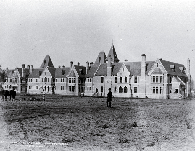 A man ploughs outside Sunnyside Asylum, Christchurch (The Asylum, designed by Benjamin Mountfort, was built 1881-1893)